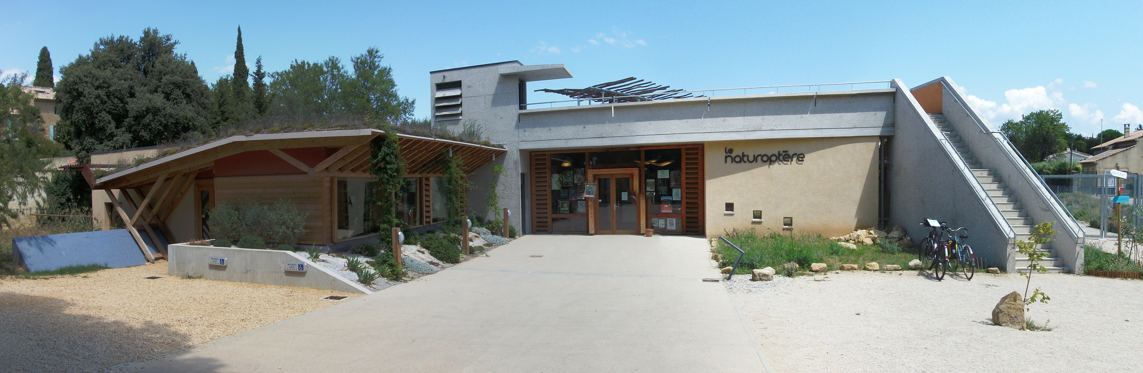 Naturoptère museum in Sérignan-du-Comtat, Vaucluse, France.